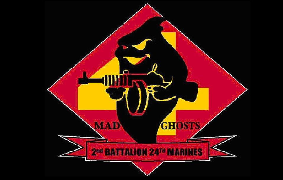 Unofficial logo of 2nd Battalion, 24th Marines